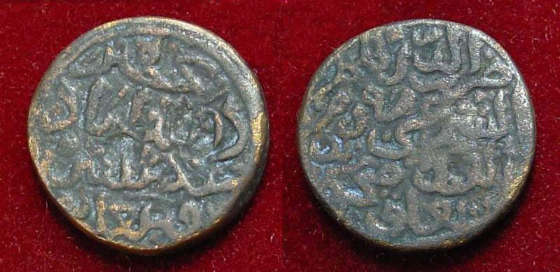 This is the image of a coin issued by Muhammad bin Tughlak belonging to the segment called "forced token currency"